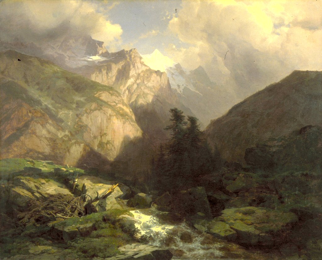 Calame established an international reputation with his dramatic views of Alpine scenery. Here, the snow-capped peak of the Jungfrau Mountain towers over the Lauterbrunnen Valley. He wrote of the site of this painting: a lost corner which I know is really wonderful . . . as if God has delighted in assembling in one corner of the earth the greatest marvels of creation.